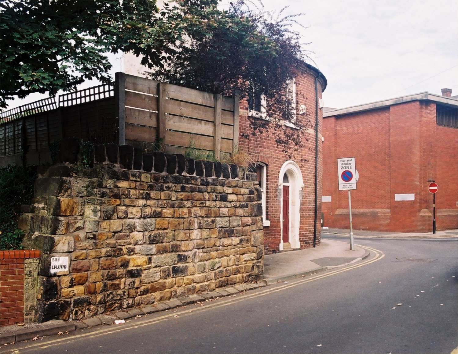 The remains of a bridge which carried the Lancaster Canal Tramroad over Garden Street in Preston, Lancashire, England. (The building in the distance on the right is the former gymnasium of Preston Catholic College, now used by Cardinal Newman College.)